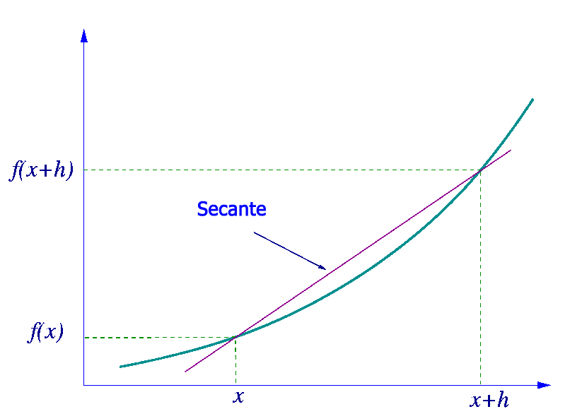 The secant to curve y ‹› f(x) determined by points (x, f(x)) and (x+h, f(x+h)). Work by Sebastião Rocha A. Neto.